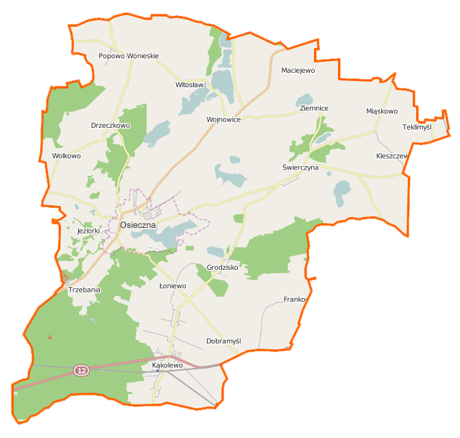 Map of Gmina Osieczna, Poland This map of Osieczna (gmina w województwie wielkopolskim) was created from OpenStreetMap project data, collected by the community. This map may be incomplete, and may contain errors. Don't rely solely on it for navigation. Border coordinates51.972416.6079←↕→16.838251.8371